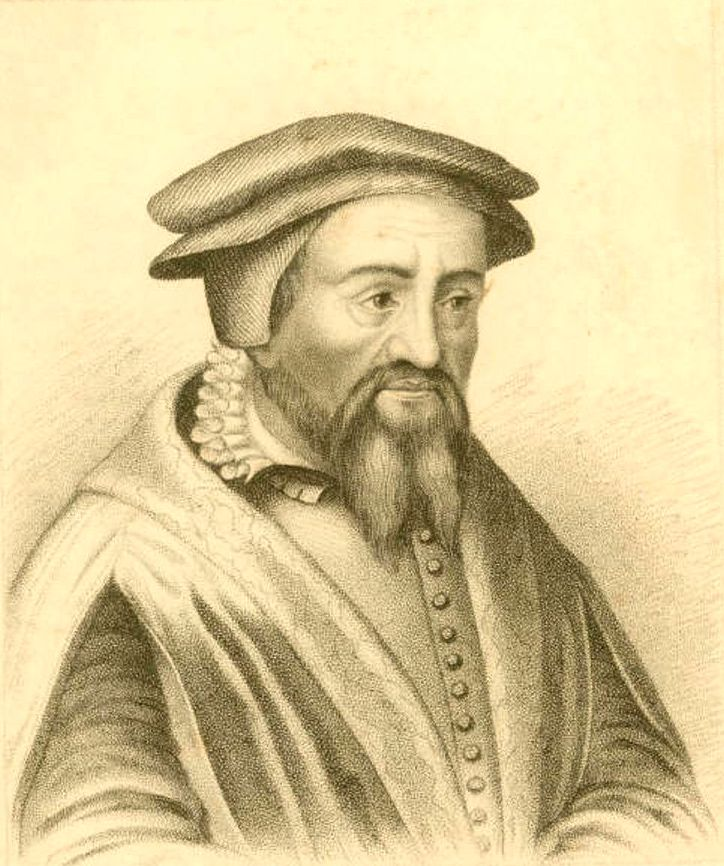 Portrait of Peter Martyr Vermigli, mistakenly identified as Peter Martyr d'Anghiera (1457-1526), Italian-born historian of Spain and its discoveries during the Age of Exploration. This stipple engraving printed in 1825 was inserted and pasted to an interleaved page in the front of the 1516 edition of Ioannes Ruffus Foroliuiensis Archiep[iscop]us Co[n]sentin[us]: legat[us] apo. ad lectore[m] De orbe nouo. ... De orbe nouo decades.